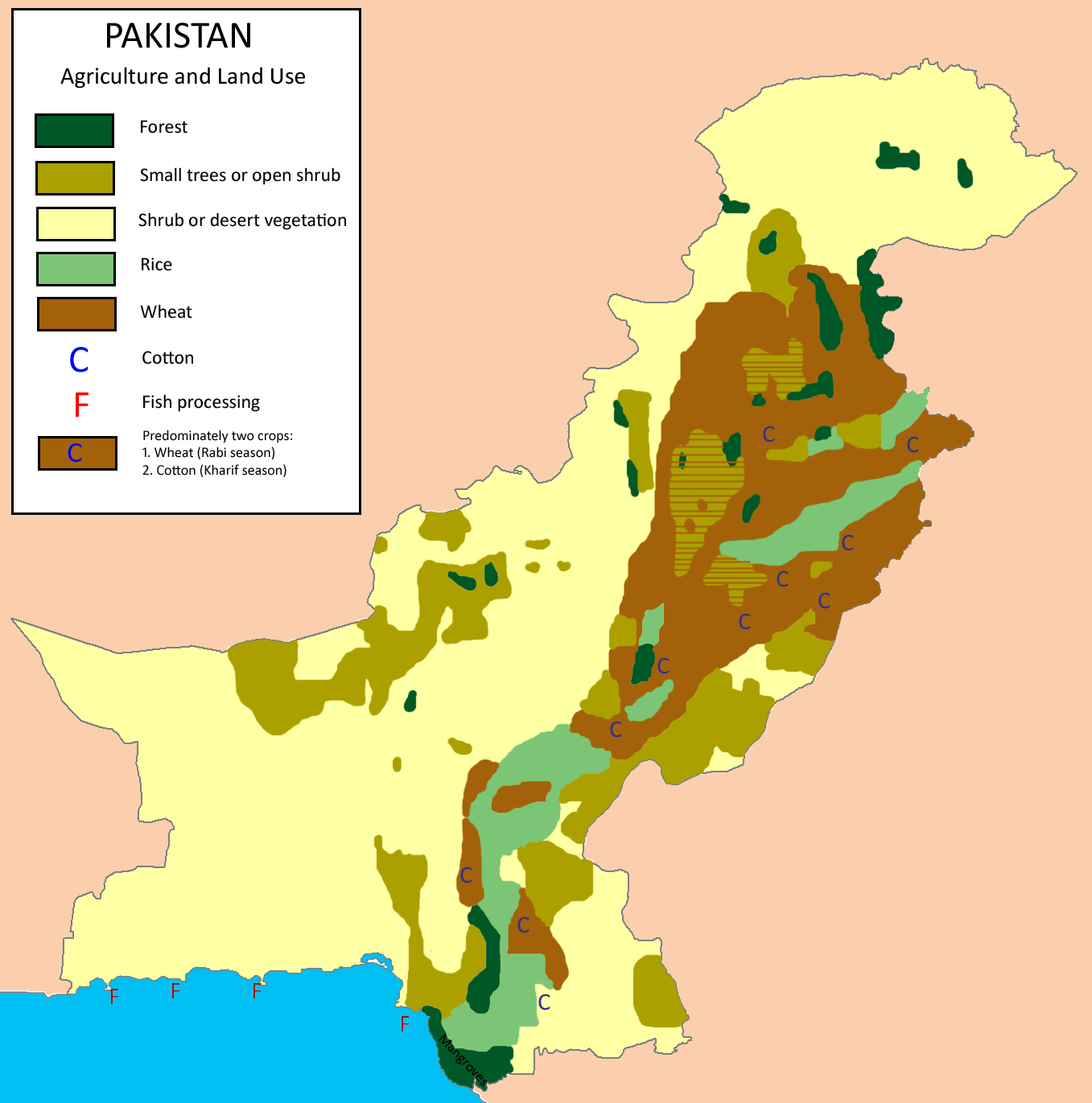 A map of the major crops and vegetation of Pakistan.